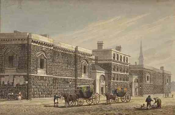 The second Newgate in a 19th century print: From Newgate Prison